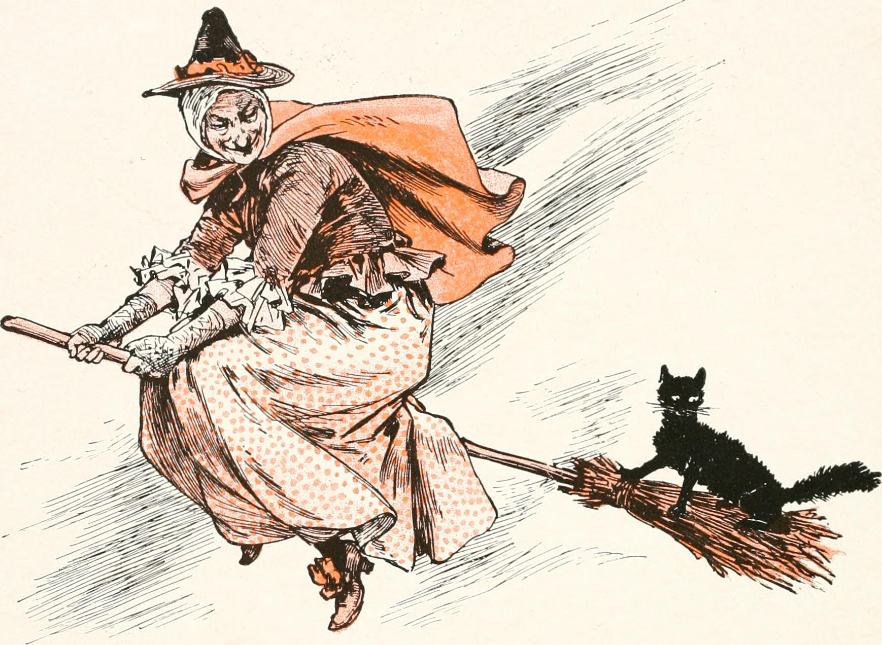 Title: Gems from Mother Goose Year: 1899 (1890s) Authors: Subjects: Nursery rhymes Publisher: New York : McLoughlin Bros. Text Appearing Before Image: ' Text Appearing After Image: THERE was an old woman who rode on a broom,With a heigh, gee-ho, gee-humble; And she took her old cat behind for a groom,With a bumble, bumble, bumble. PHARLEY loves good cake and ale; Charley loves good candy;Charley loves to kiss the girls, When they are neat and handy. QHOE the horse, and shoe the mare,But let the little colt go bare. A FARMER went trotting upon his gray mare, Bumpety, bumpety, bump; With his daughter behind him so rosy and fair, Lumpety, lumpety, lump. - \ A raven cried croak, and they all tumbled down, Bumpety, bumpety, bump. The mare broke her l^nees and the Farmer his crown,Lumpety, lumpety, lump. The mischievous raven flew laughing away, Bumpety, bumpety, bump; And vowed he would serve them the same next day, Lumpety, lumpety, lump. THERE was a fat man of Bombay,Who was smoking one sunshiny day,When a bird, called a snipe,Flew away with his pipe,Which vexed the fat manof Bombay.